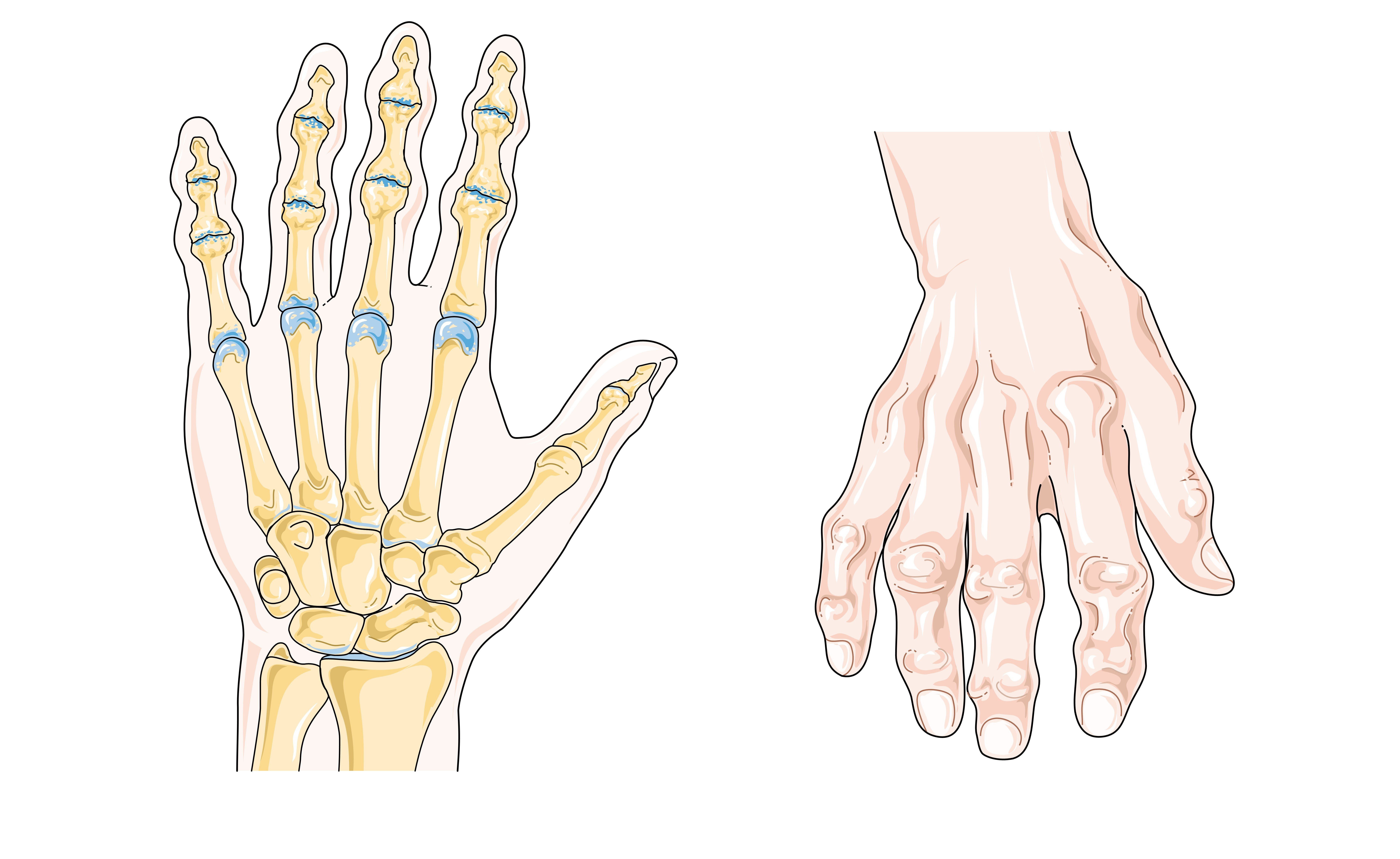 Skeleton and bones - Osteoarthritis